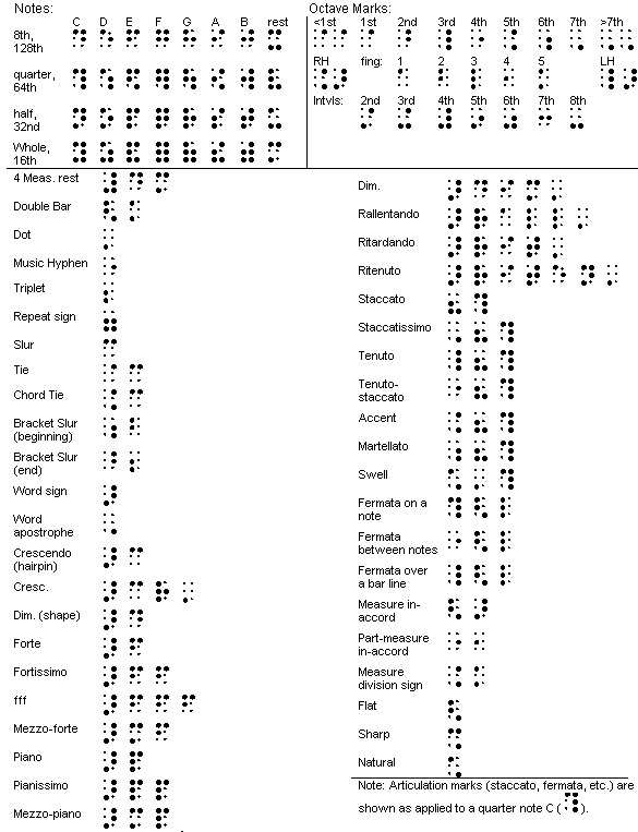 Braille Music Summary This summary was created by Brent Hugh. This summary is hereby released by Brent Hugh into the public domain and may be used by anyone for any purpose whatsoever.